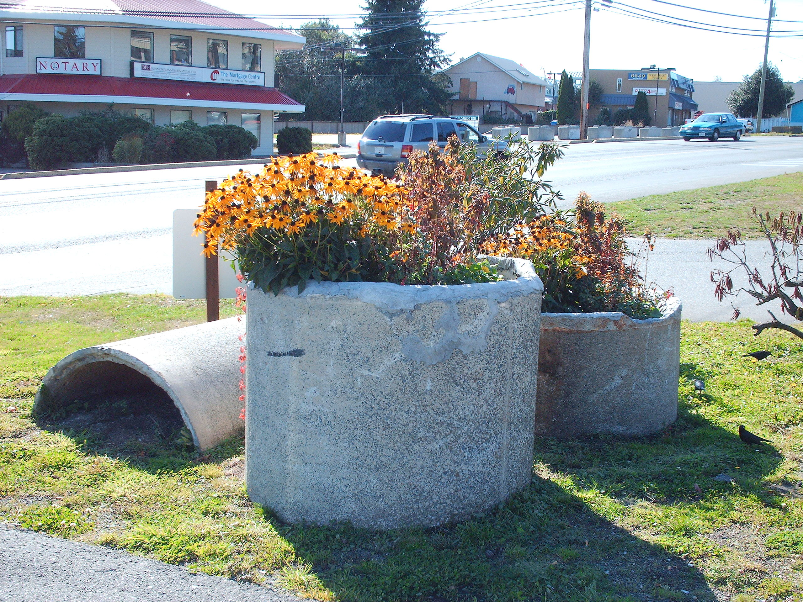 An example of the sections being used as flowerpots in the Sooke town.